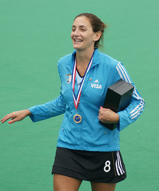 Luciana Aymar after winning the 2010 Champions Trophy in Nottingham, 18 July 2010